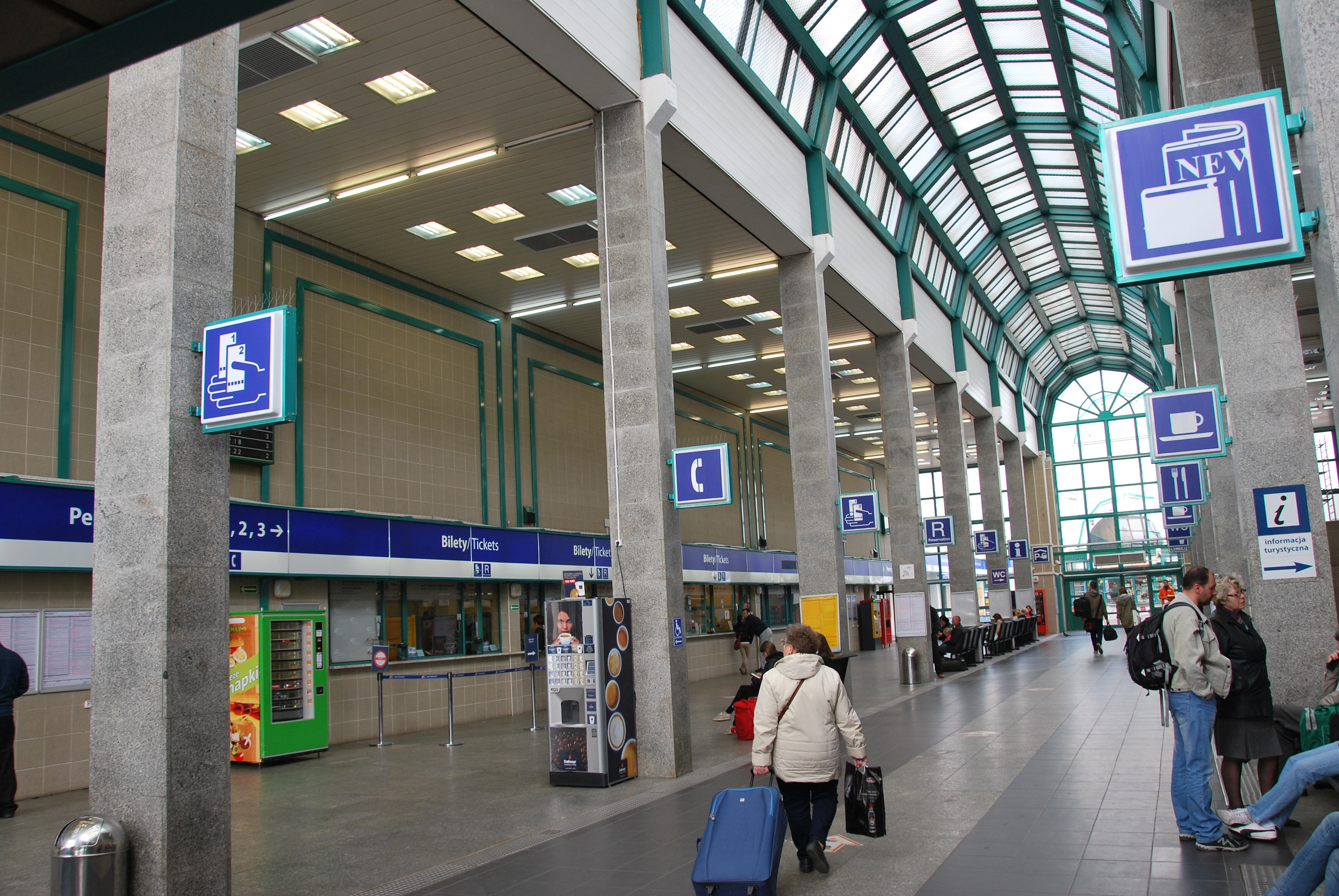 Łódź Kaliska station main hall